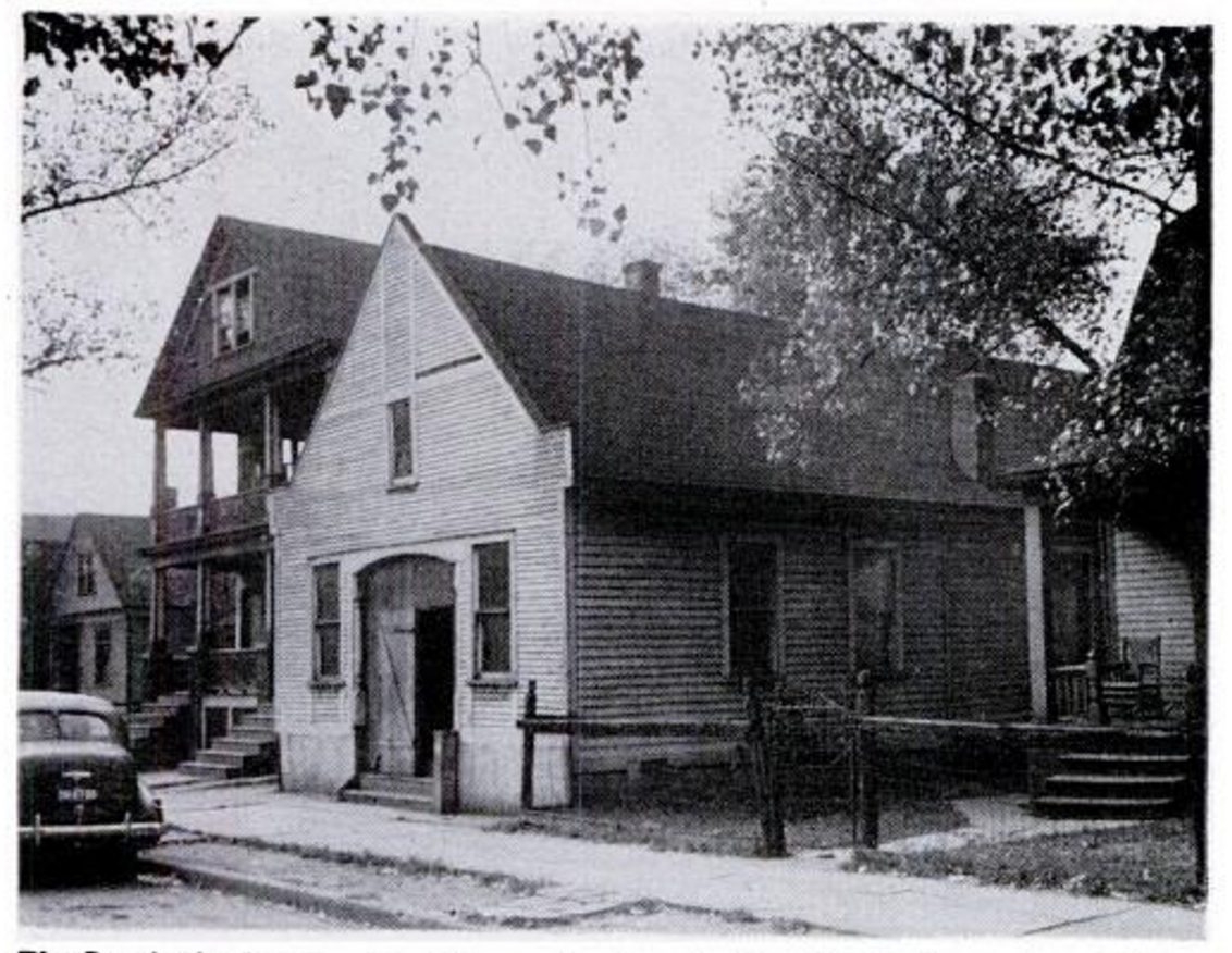 Prophet Francis Marion Jones' Universal Triumph the Dominion of God church in Detroit in November 1944